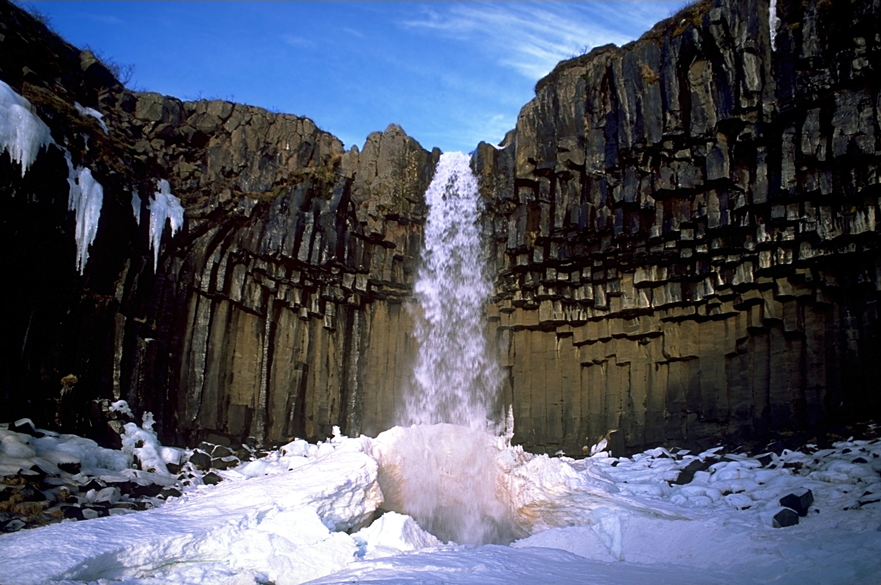 Svartifoss in Winter, Skaftafell national park, Iceland Photo was taken using the following technique: Film: Fuji Velvia Lens: 2.8/20 Filter: Body: Minolta Dynax 7 Support: Manfrotto 190B Image with Information in English Bild mit Informationen auf Deutsch